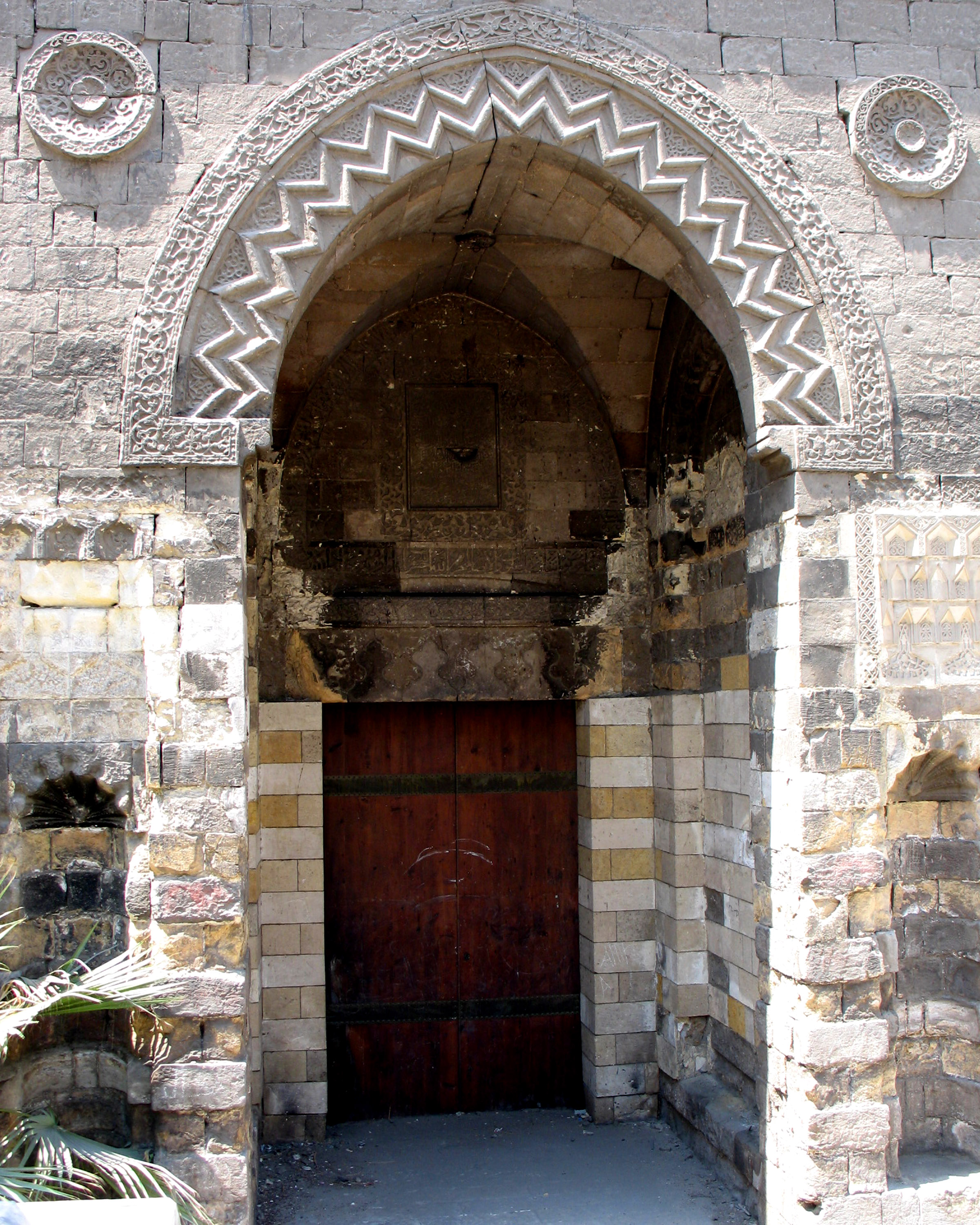 An example of Ablaq design at one of the portals of the Baybars mosque.